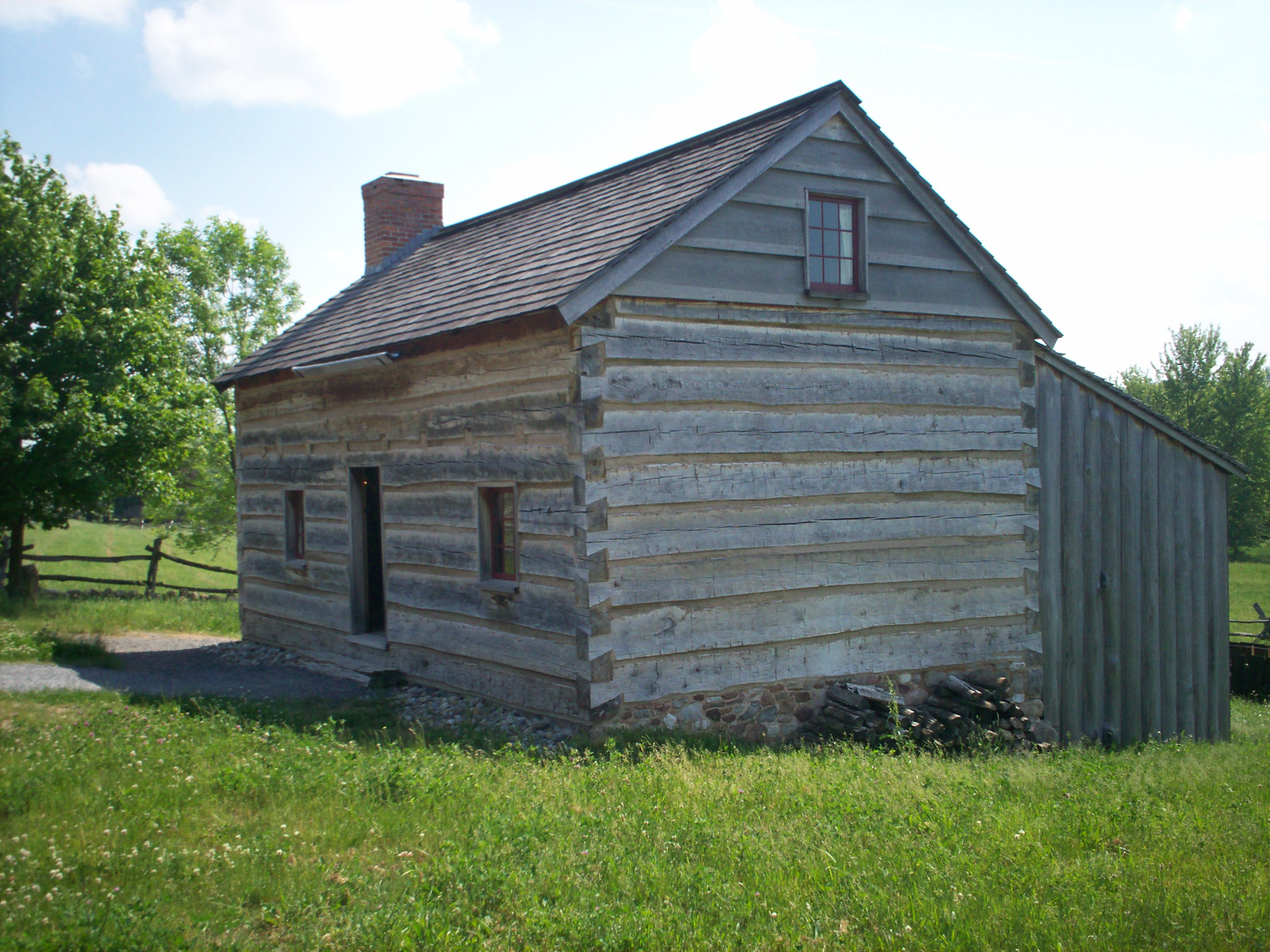 View of the log cabin lived in by the family of Joseph Smith Sr. in Palmyra, New York. The cabin was authentically rebuilt on its original foundation in 1997-1998.